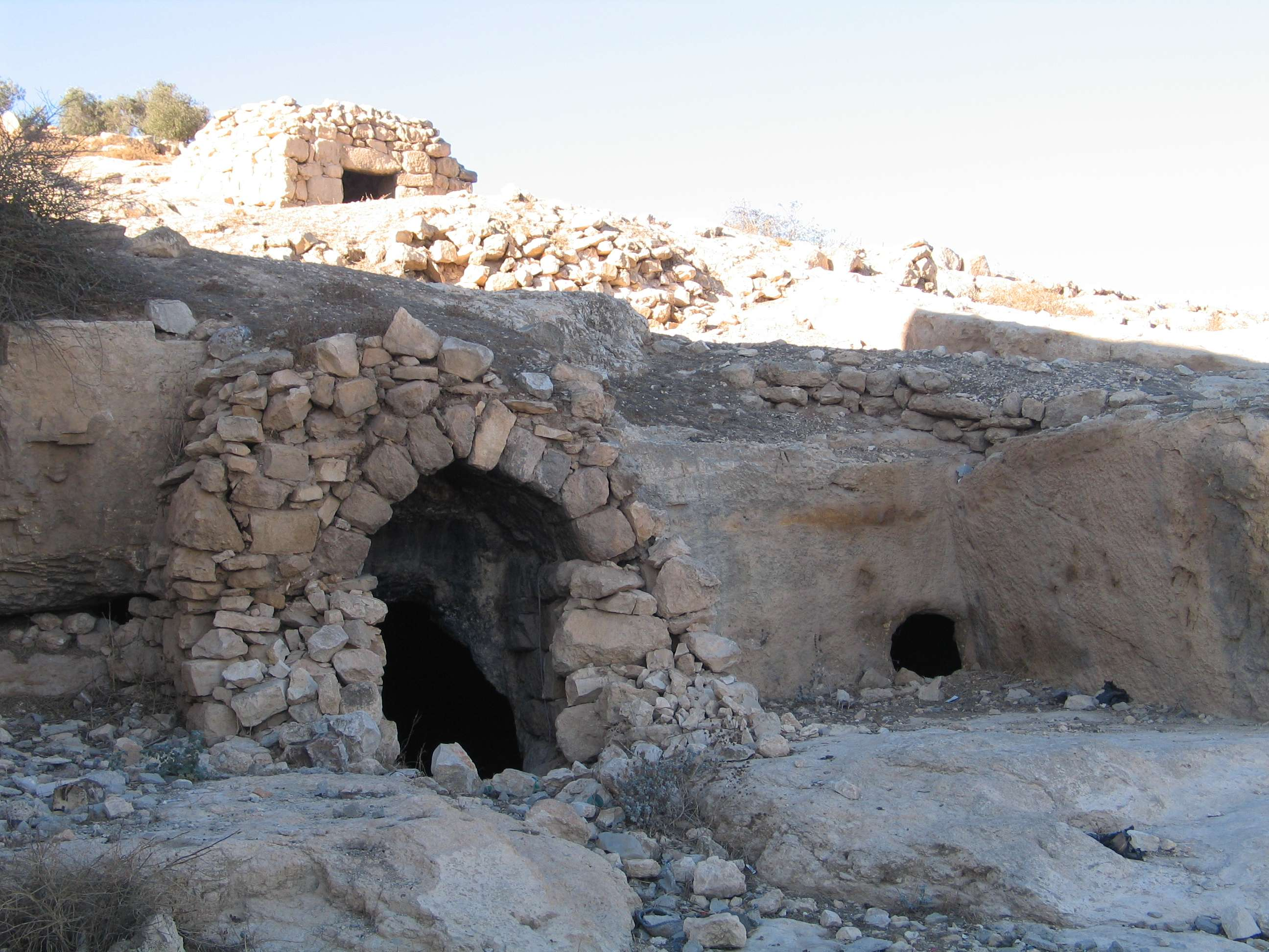 At-Tawani, Hebron hills.